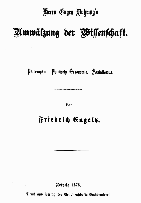 Front cover